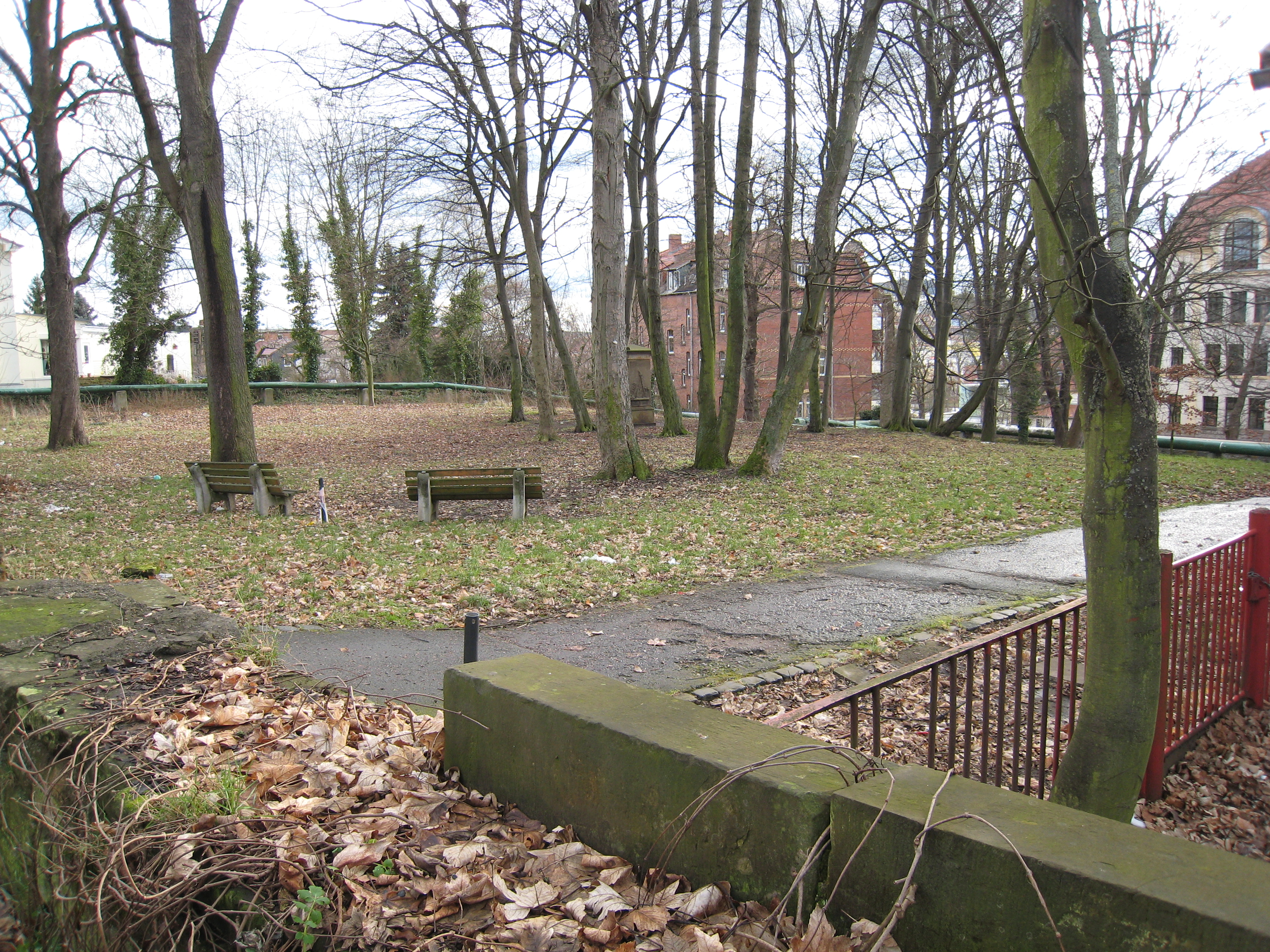 Cemetery II in Gotha with Arnoldi gravestone